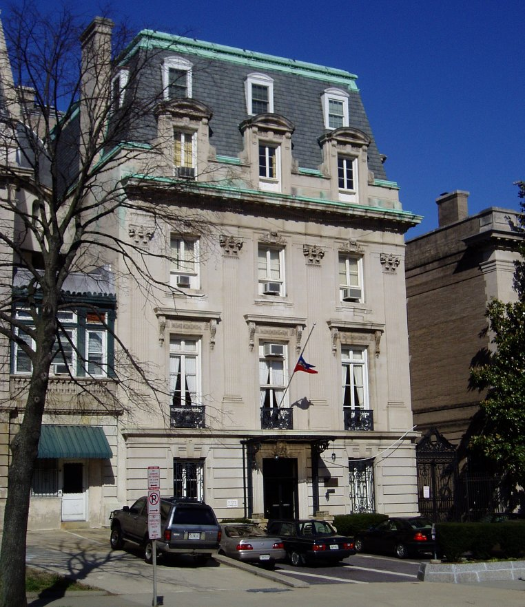 Embassy of Haiti, Washington, D.C.